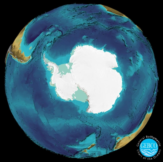 Antarctic 3D-visualisation made by Martin Jakobsson at the Center for Coastal and Ocean Mapping/Joint Hydrographic Center, University of New Hampshire, using Fledermaus software.